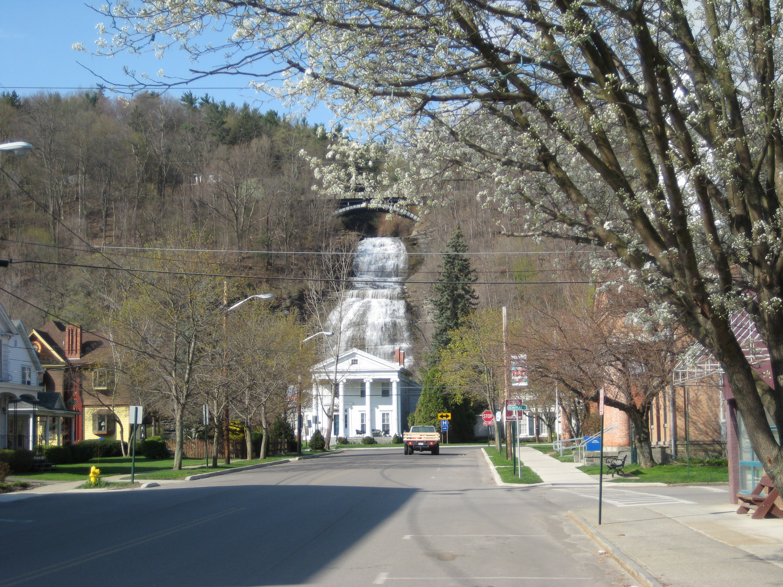 Montour Falls underneath a flowering black cherry. Too pretty. Shot from the railbed going through town.